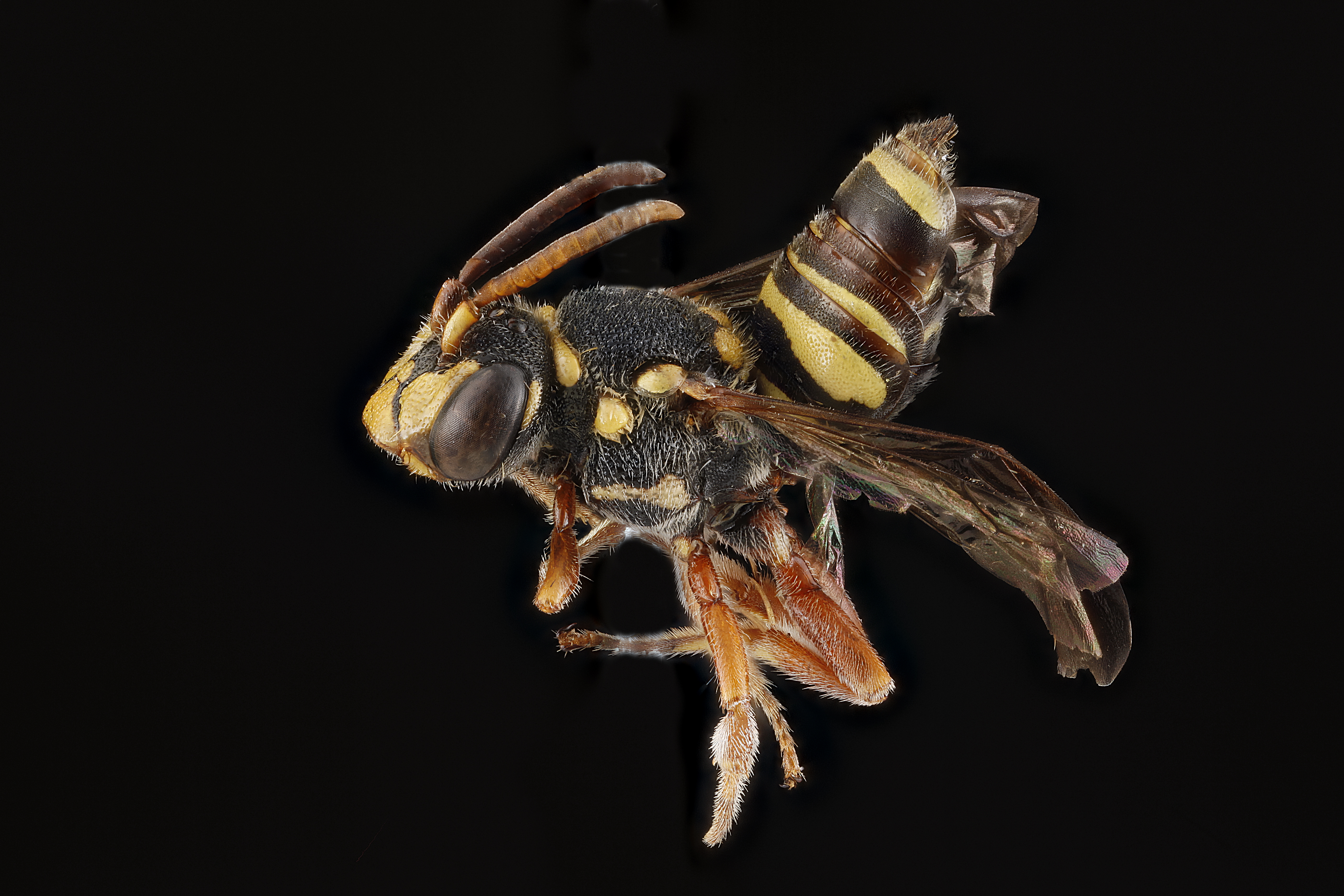 Nomada texana, male, North Carolina, USFS Experiment Station